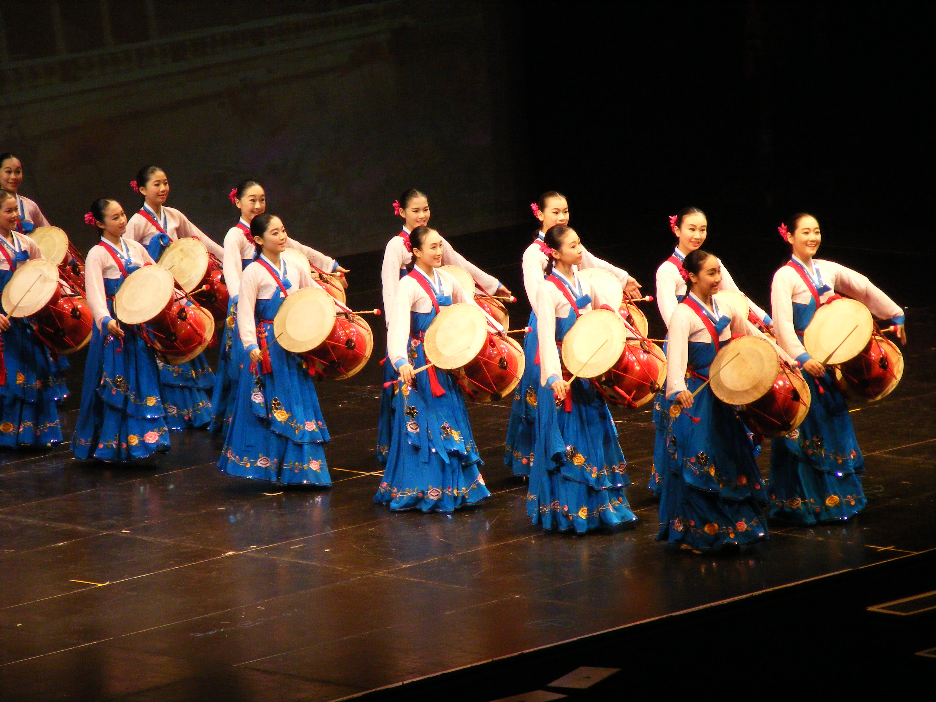 Members of Little Angels performing Hourglas Drum Dance in Berlin, Germany